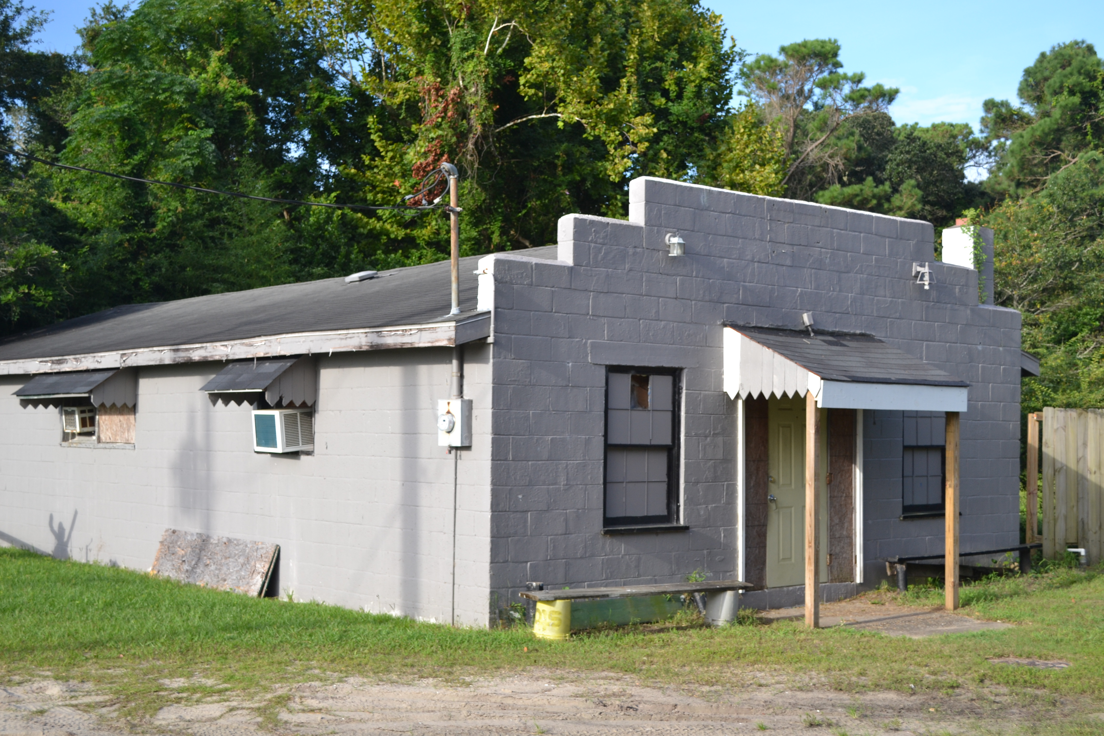 Seabreeze building 2018